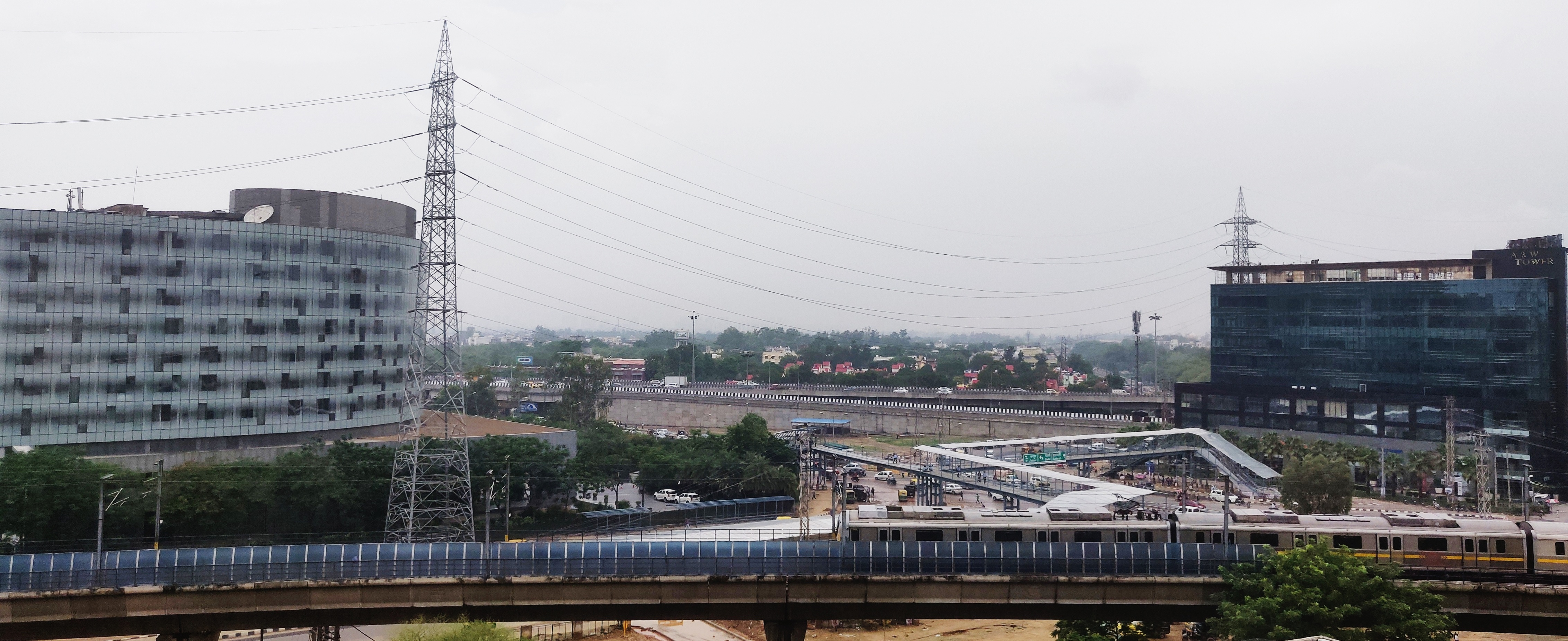 IFFCO Chowk, Gurgaon, India